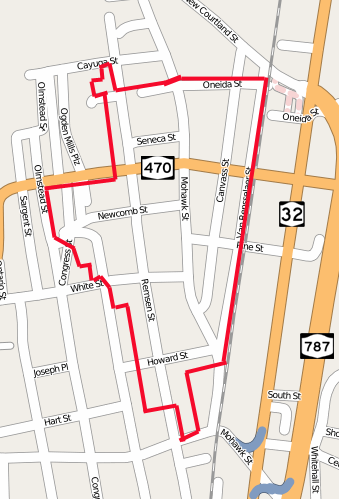 Map of Downtown Cohoes Historic District, Cohoes, NY, USA This map may be incomplete, and may contain errors. Don't rely solely on it for navigation.